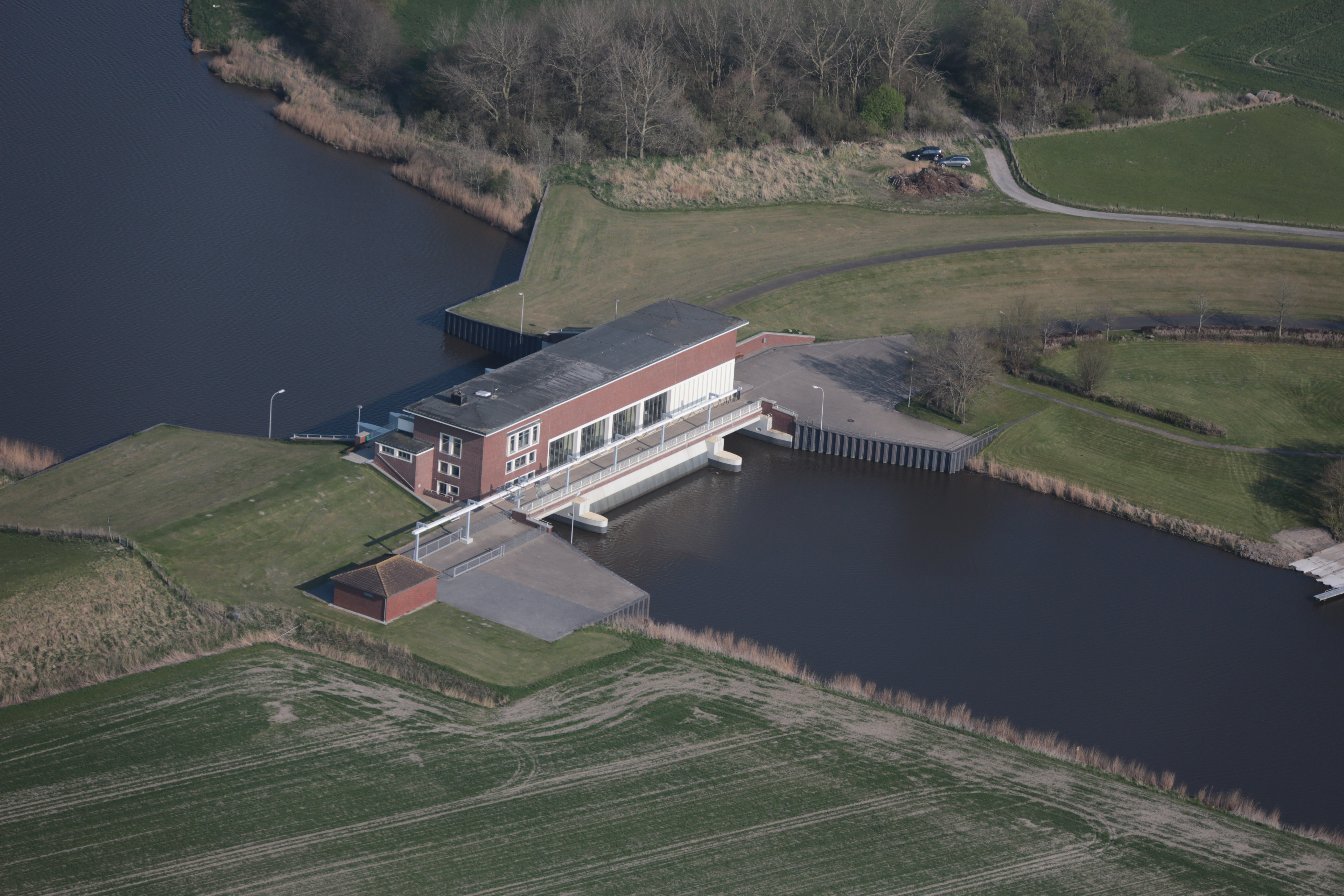 Fotoflug von Nordholz-Spieka nach Oldenburg und Papenburg This photo was taken by Alchemist-hp. If you use one of my photos, an email (account needed) or a message or direct to: my email account would be greatly appreciated. Please note the license terms. Other licensing terms can get discussed, too. This file is copyrighted and has been released under a license which is incompatible with Facebook's licensing terms. It is not permitted to upload this file to Facebook.